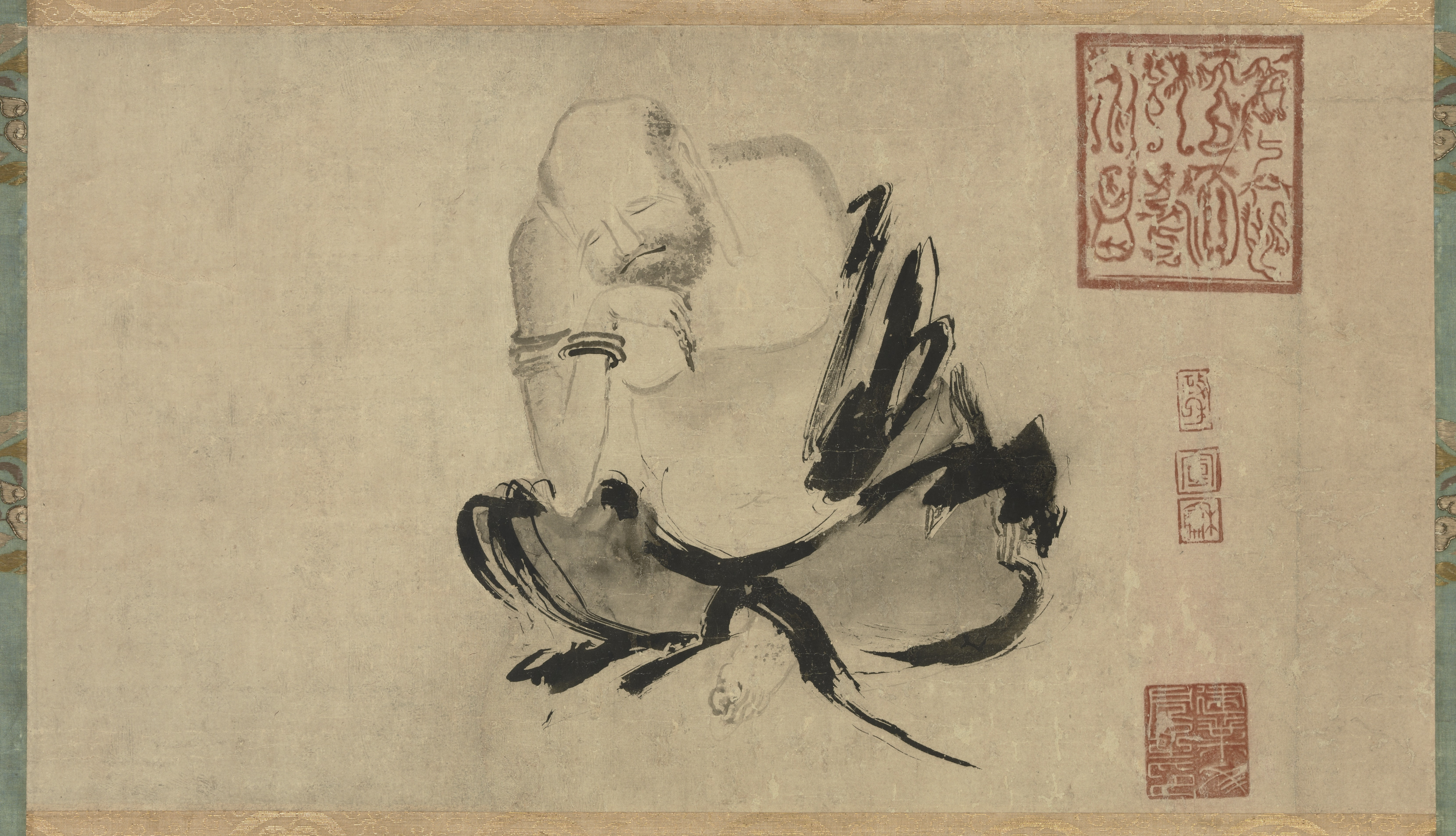 Depicts Zen monk Huike (慧可) thinking. By painter Shi Ke (Chinese: 石恪), from Five Dynasties and Ten Kingdoms Period to Northern Song (about 10th century)